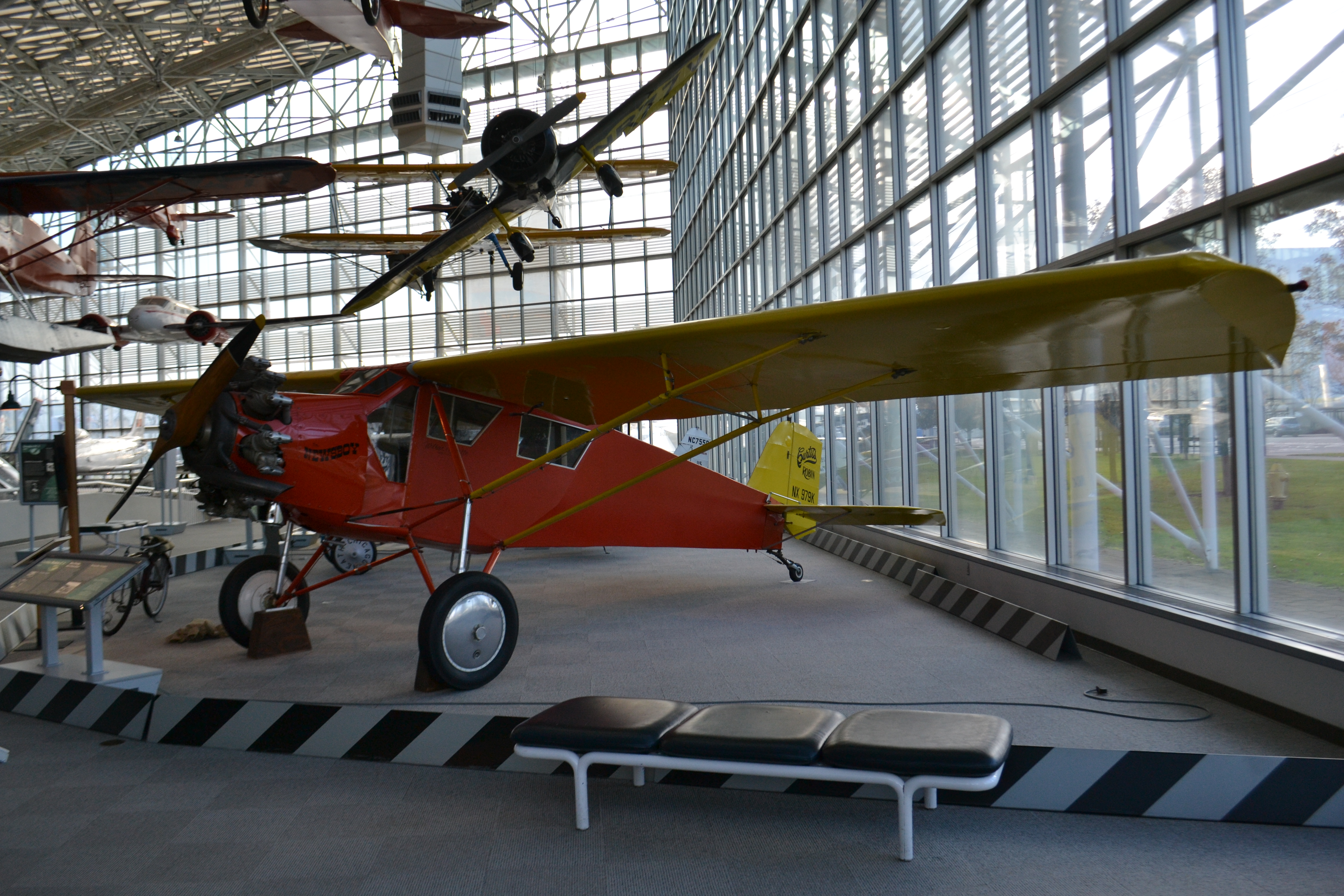 Seattle Museum of Flight